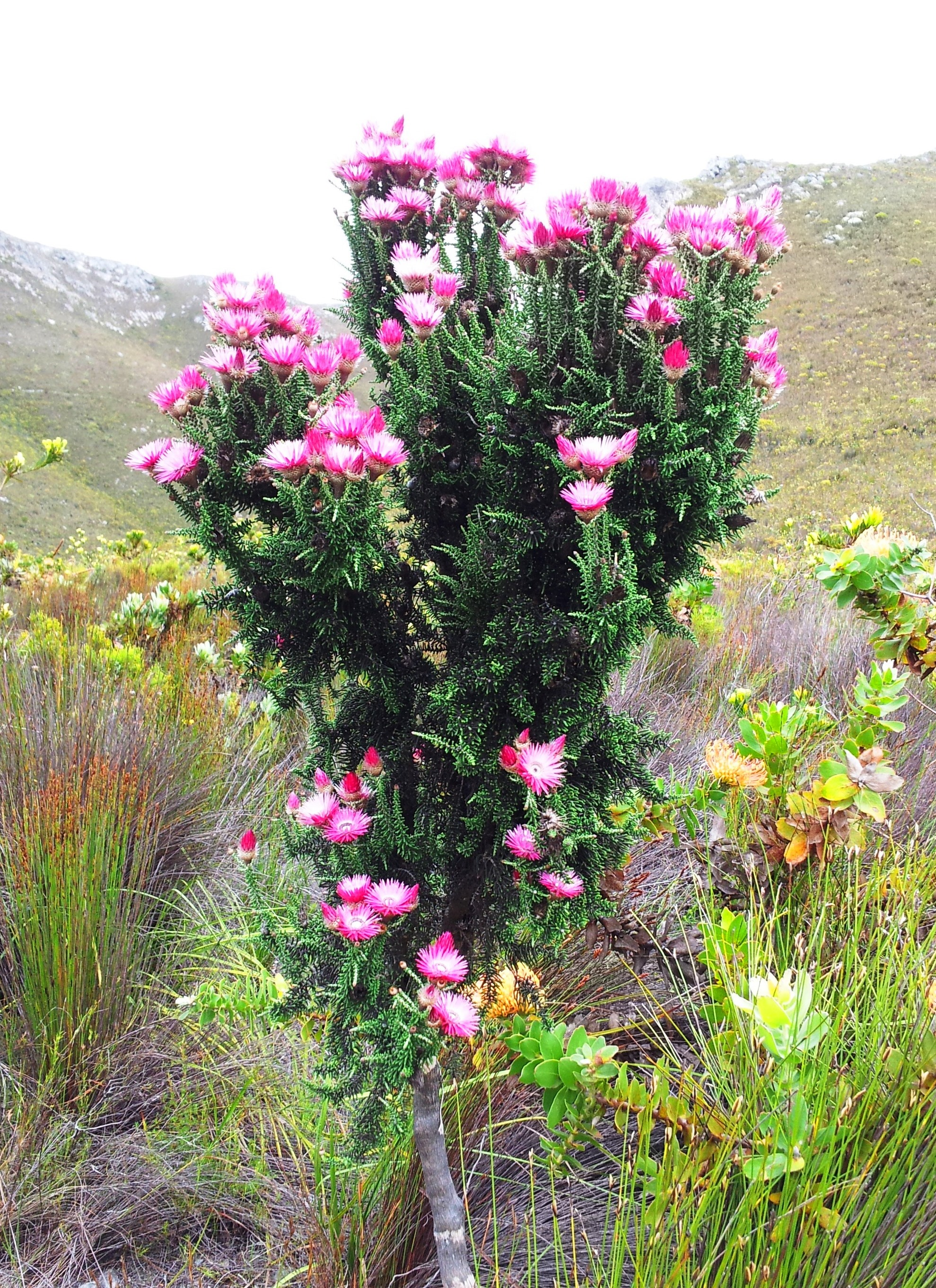 Phaenocoma prolifera - Everlasting - Cape Strawflower plant - Fynbos